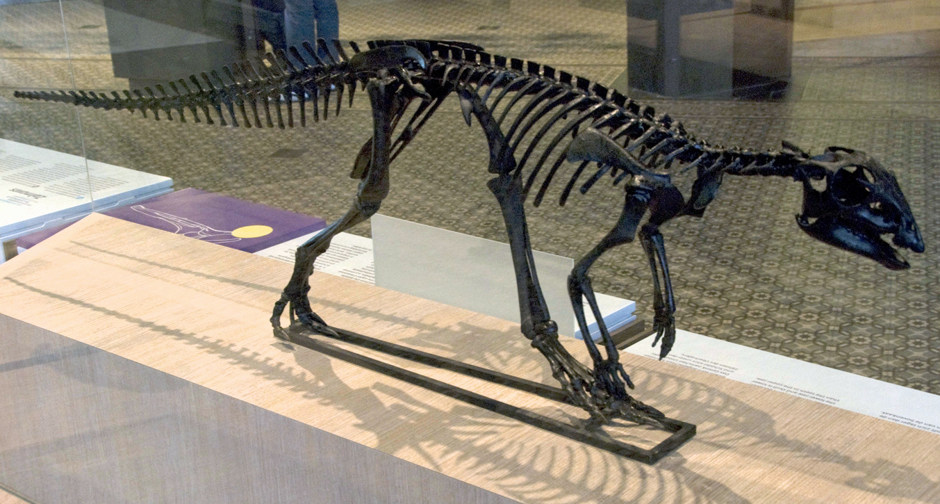 Replica of Hypsilophodon at Brussels